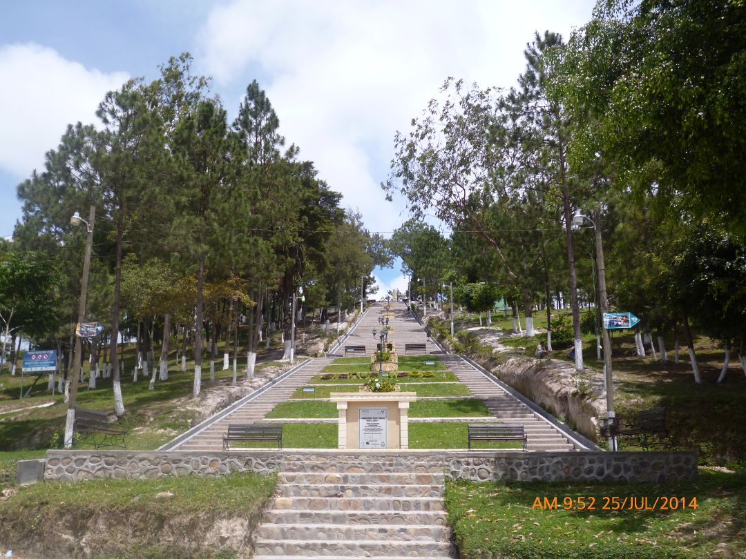 Centennial Cerrito, front view